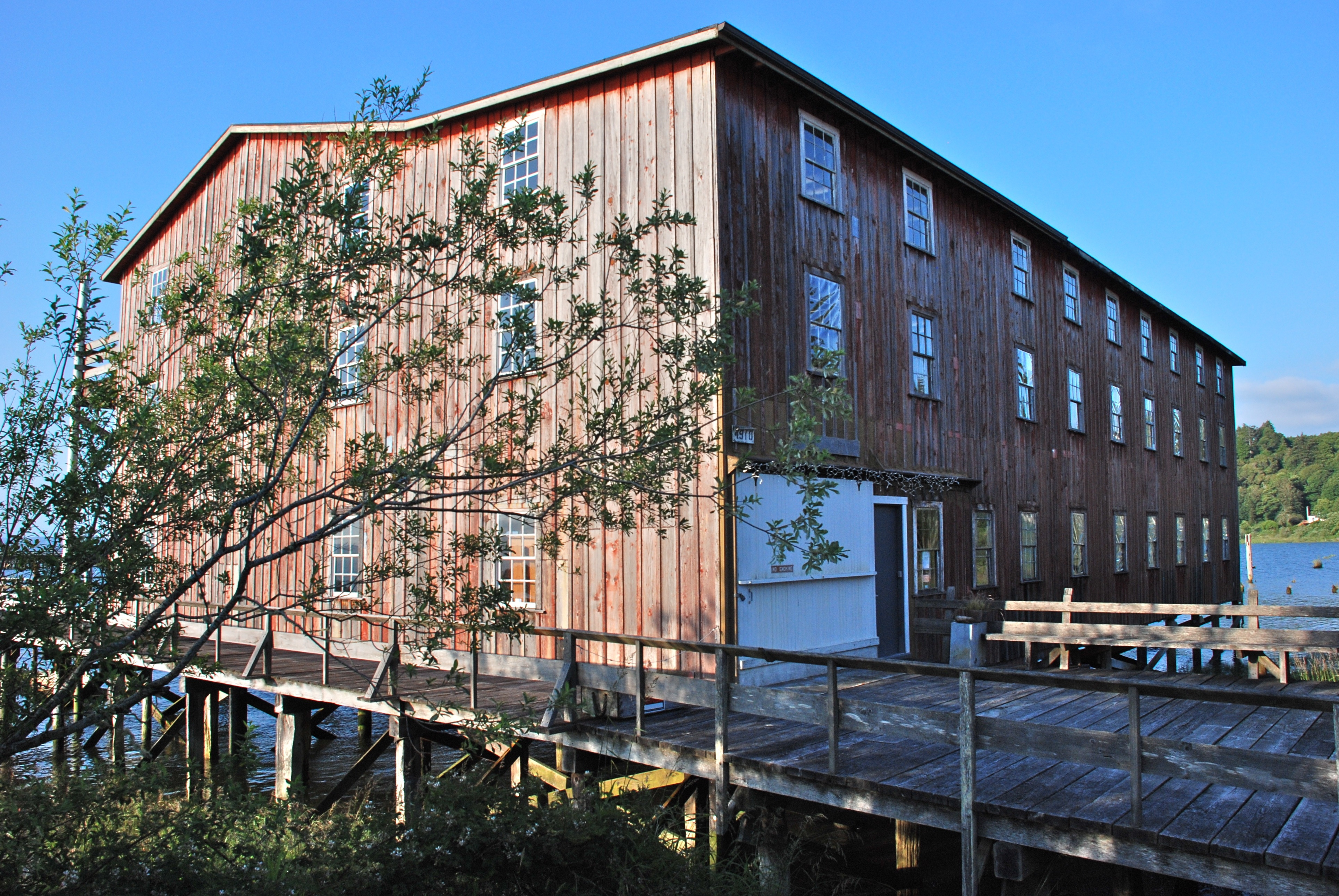 The fishing boat and net storage building of the former Union Fishermen's Cooperative Packing Company Alderbrook Station, in Astoria, Oregon, is the largest structure of the complex of buildings, piers and net-drying racks. It was built around 1903.